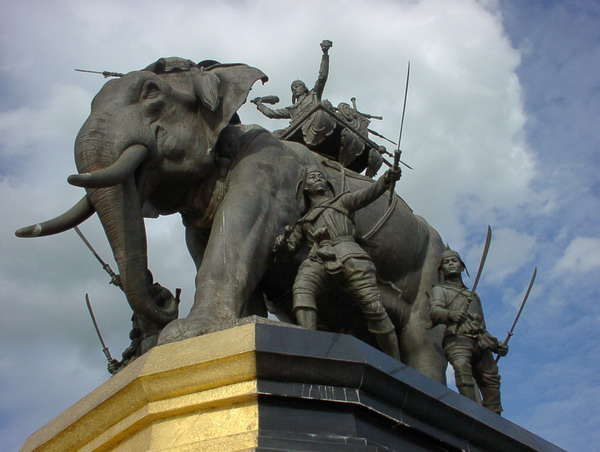 Queen Suriyothai memorial statues - By A.Aruninta